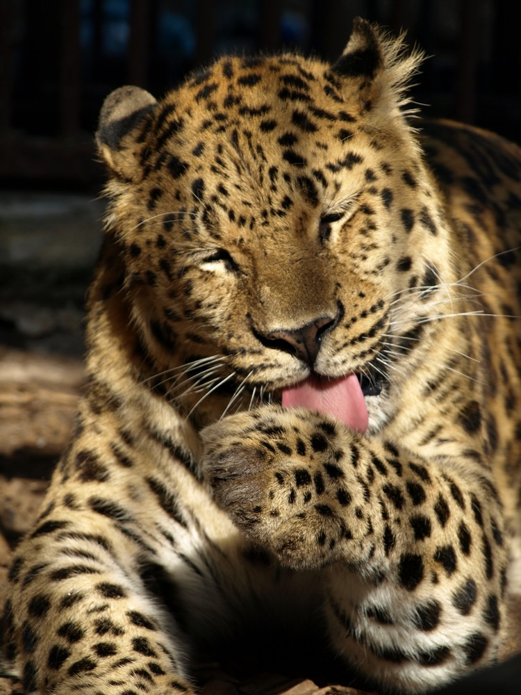 Amur Leopard in the zoo in Děčín, Czech Republic.